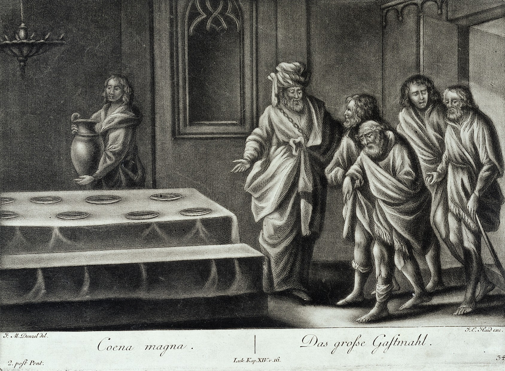 The halt and the blind being invited to the great supper. Mezzotint by J.E. Haid after J.M. Denzel. Iconographic Collections Keywords: Jesus Christ; J.M. Denzel; Johann Elias Haid